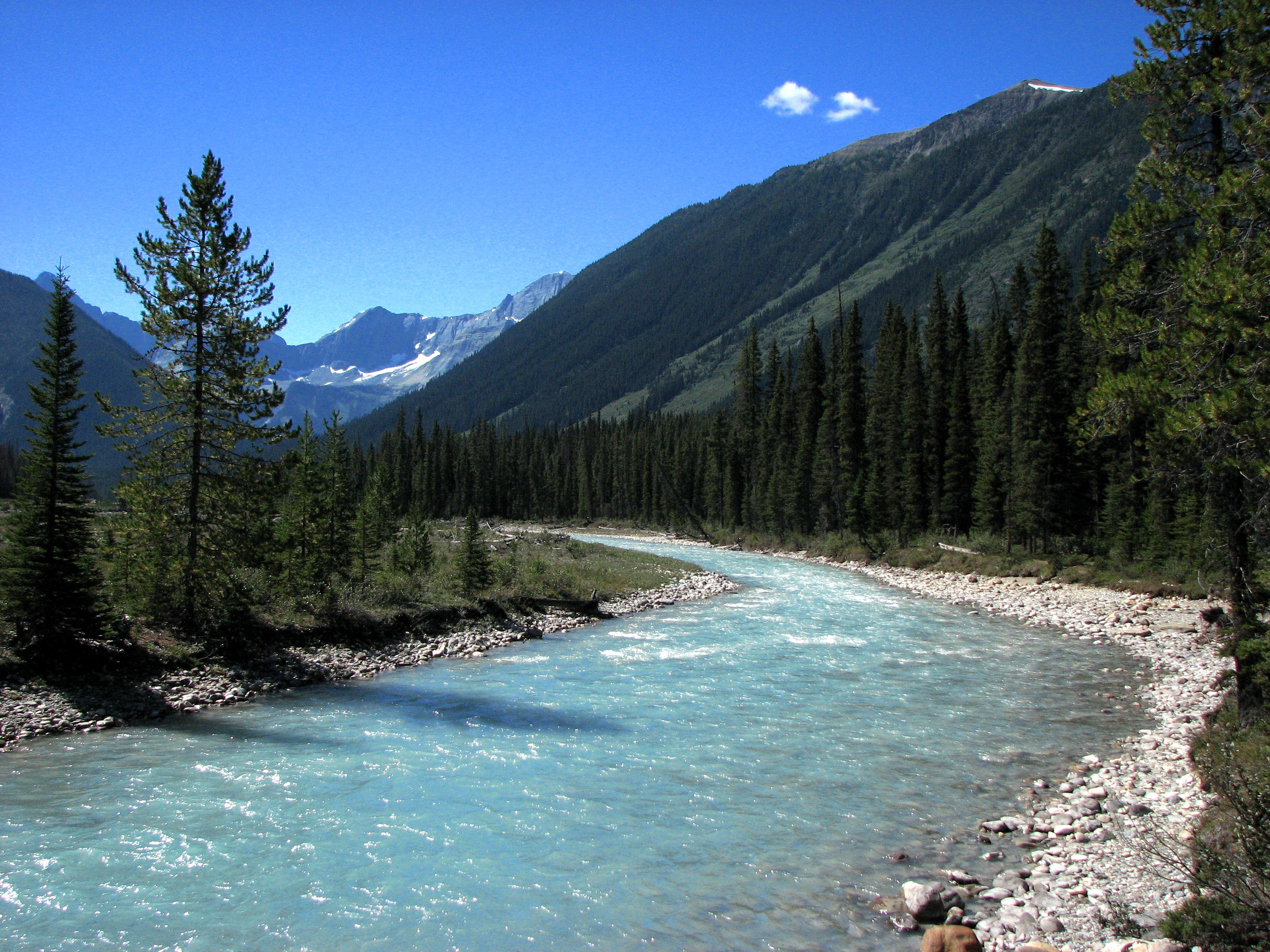 Vermilion River, found in Kootenay National Park, British Columbia, Canada.